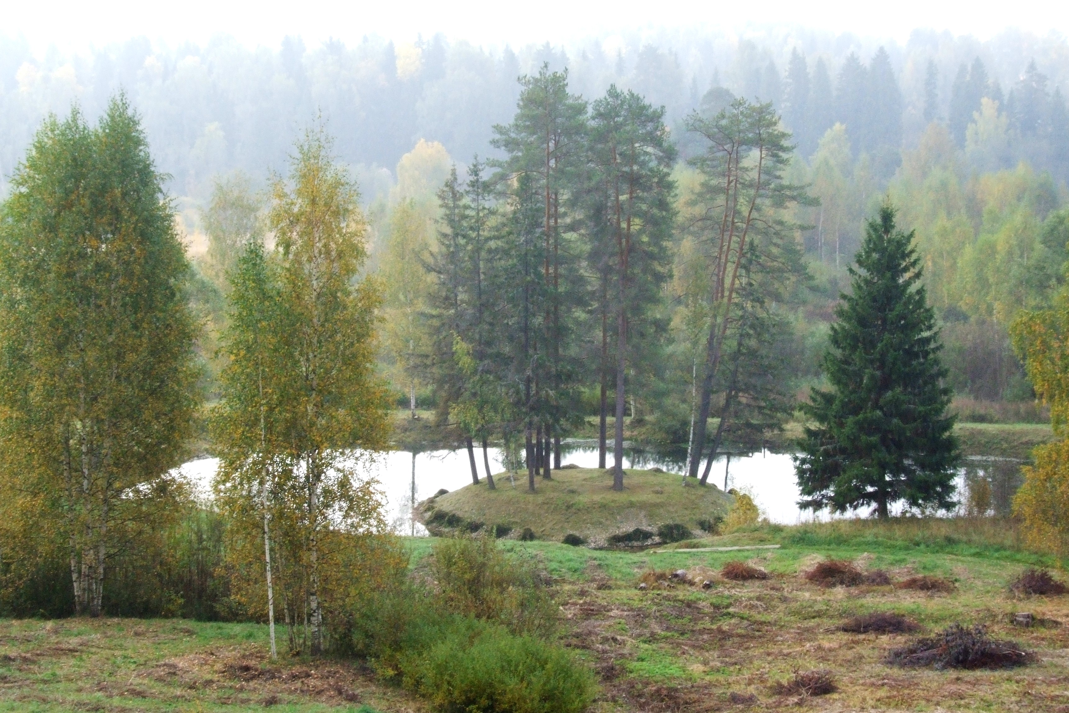 Schelykovo forest (Alexander Ostrovskiy's house-museum)